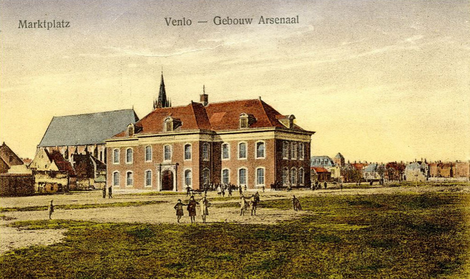 Arsenal Venlo